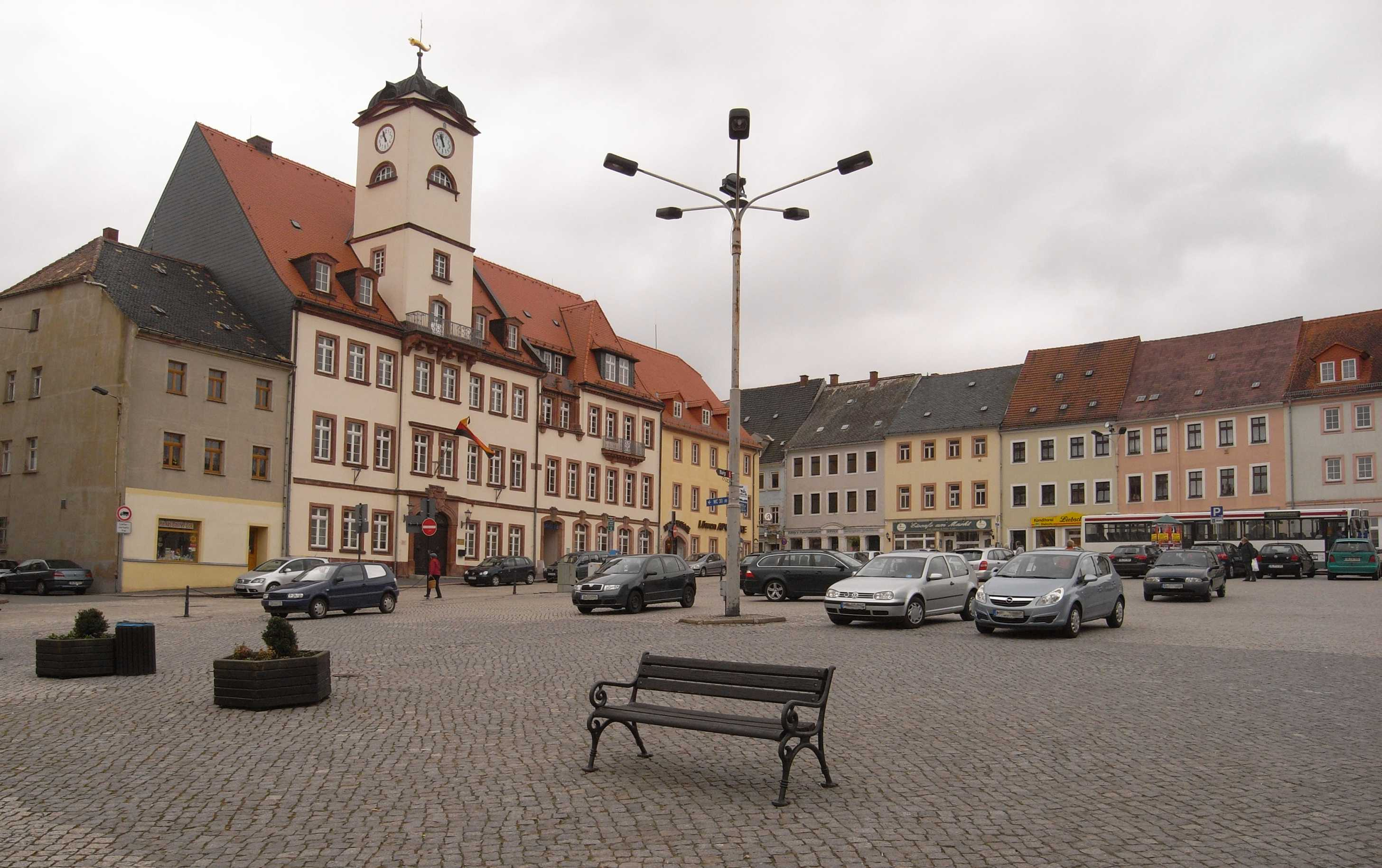 Leisnig, market-place with town hall (left)